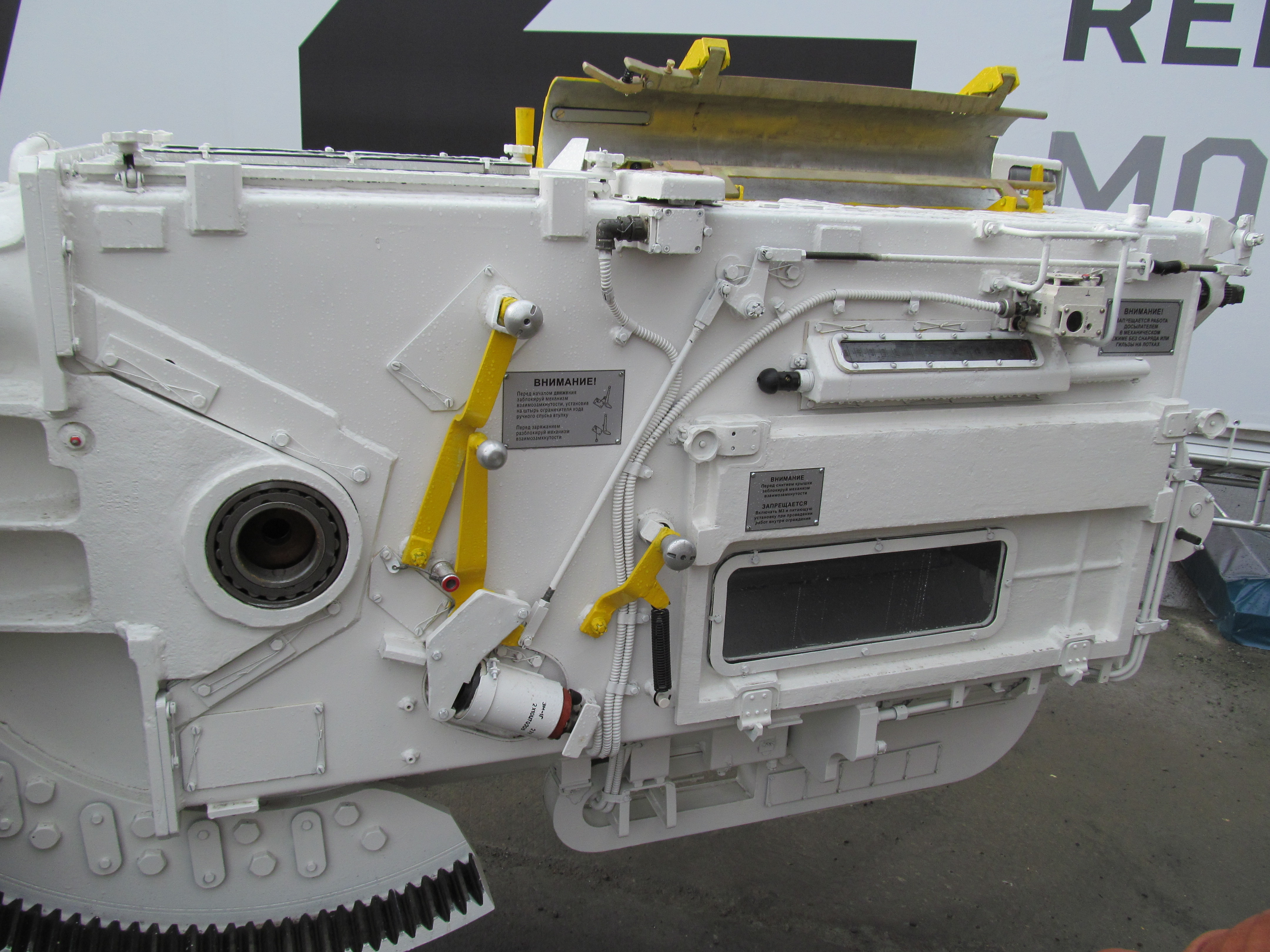 2A64 Howitzer on RAE-2013 exposition.